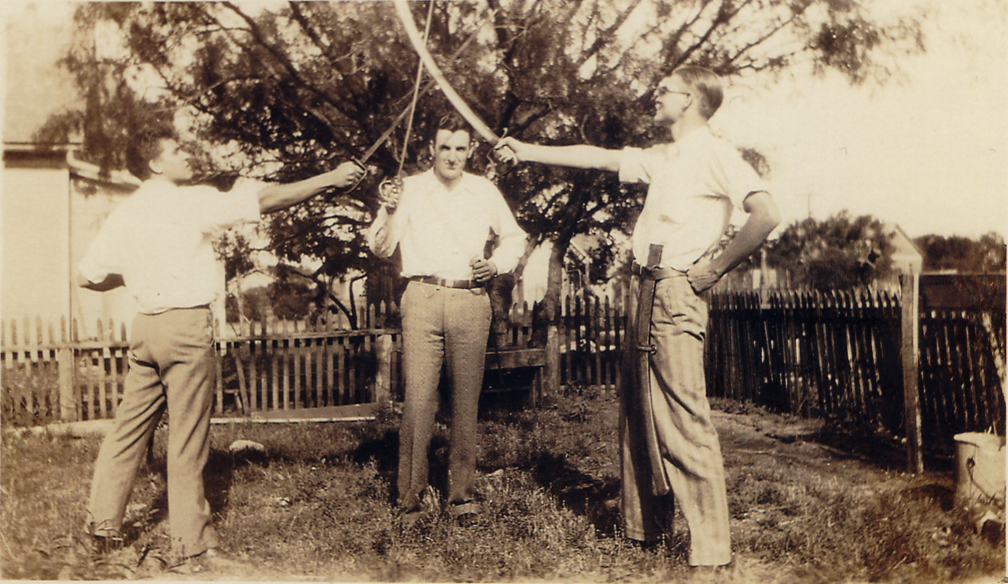 Photograph of Robert E. Howard. Left to right: Robert E. Howard, Truett Vinson, and Tevis Clyde Smith.